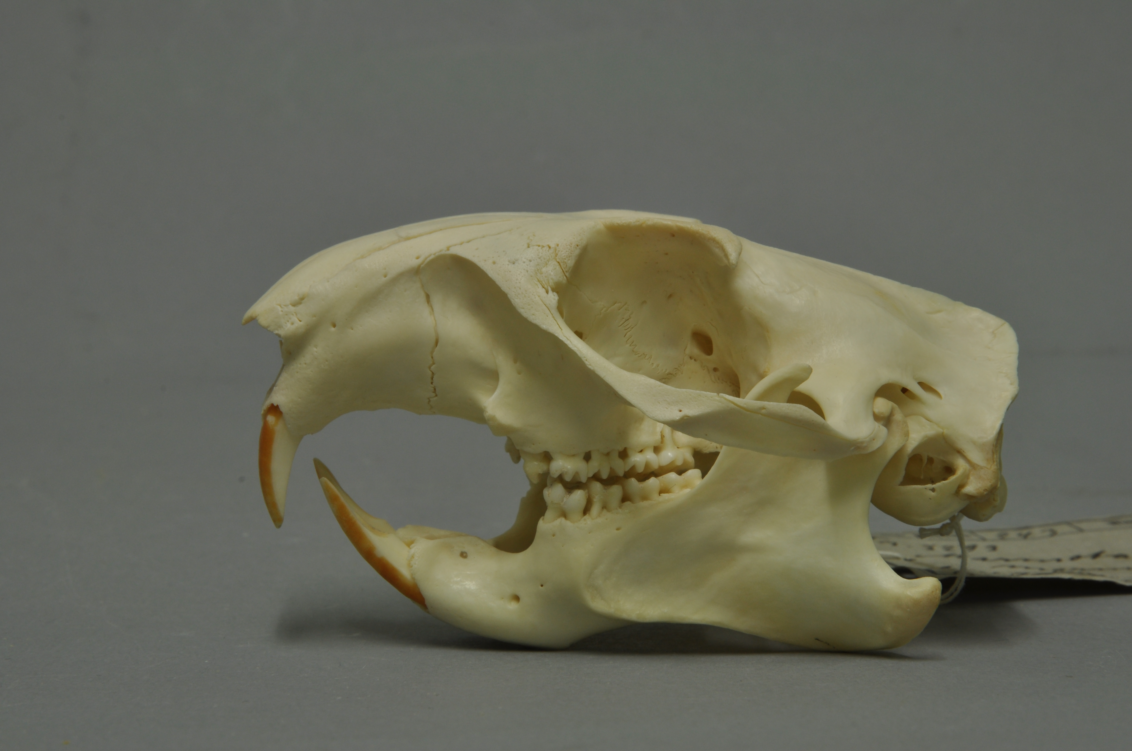 Alpine Marmot Marmota marmota , skull, Coll. Museum Wiesbaden